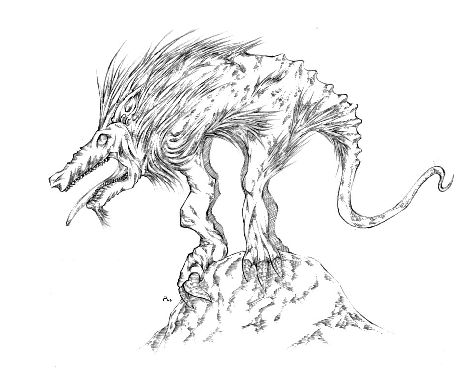 Greyscale drawing of Chupacabra